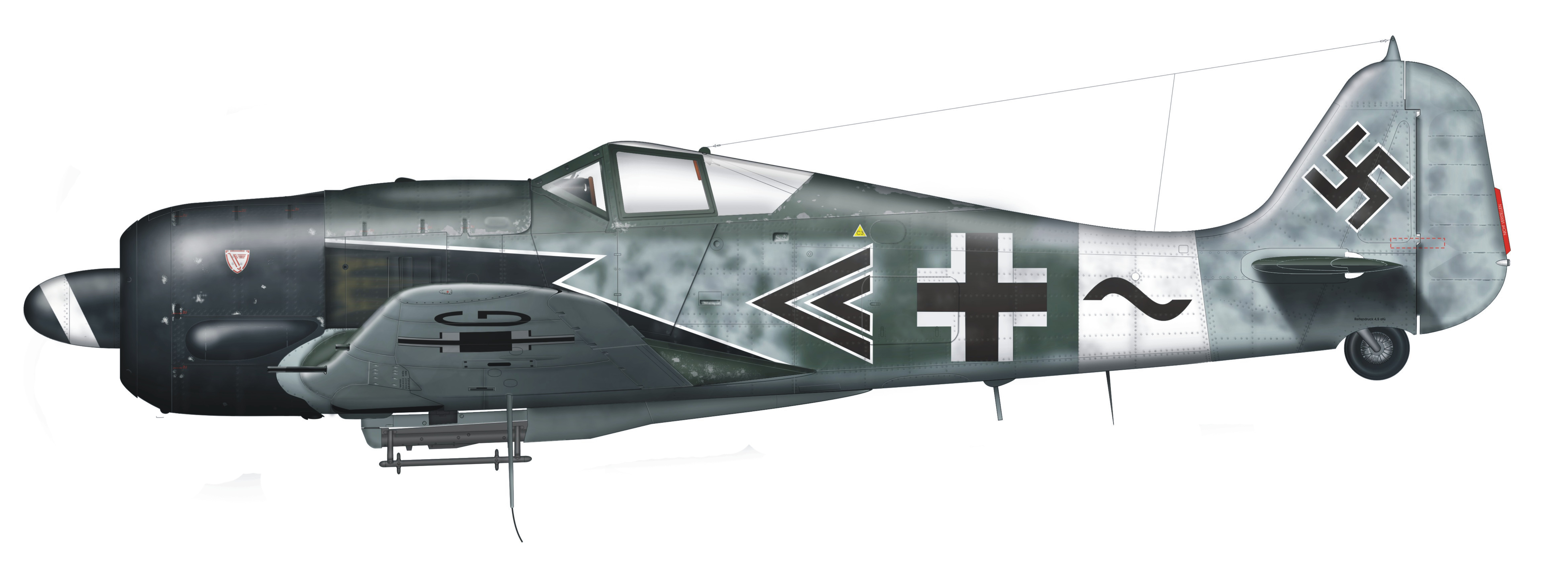 Focke Wulf Fw 190 A-8/R8 of IV.(Sturm)/JG 3, flown Hptm. Moritz